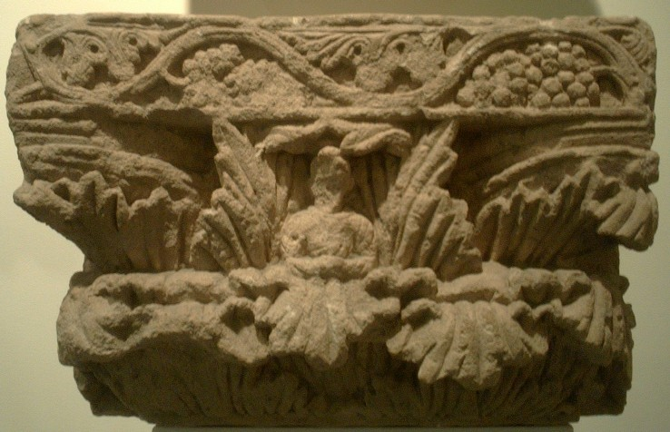 A Corinthian capitol with a Buddha at its center, 2nd century CE, Surk Kotal, Afghanistan. Musée Guimet.